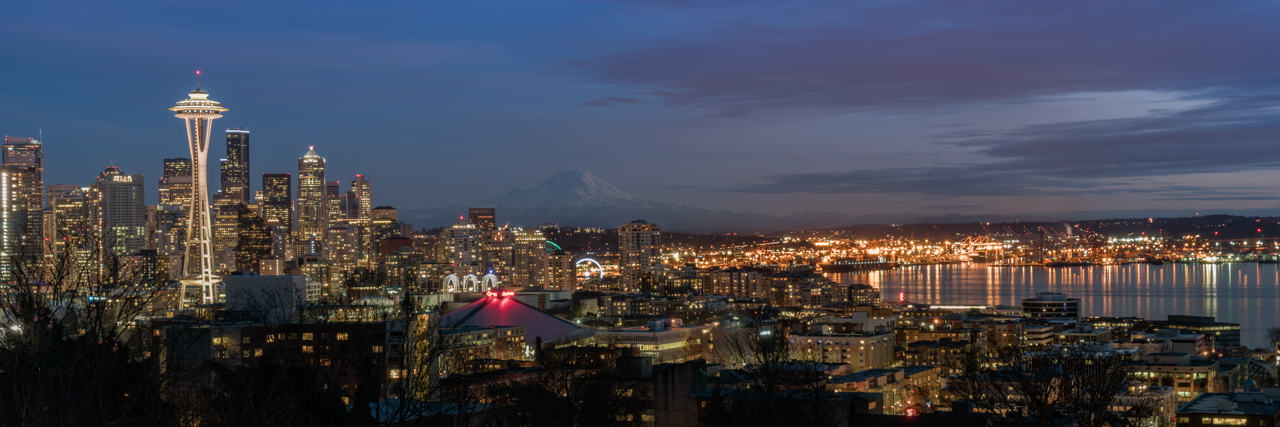 Panoramic view from Kerry Park.